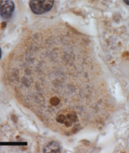 Higher power photomicrograph of a neuron containing a cluster of Bunina body-like inclusions (ubiquitin immunohistocemistry, bar = 5 nm)